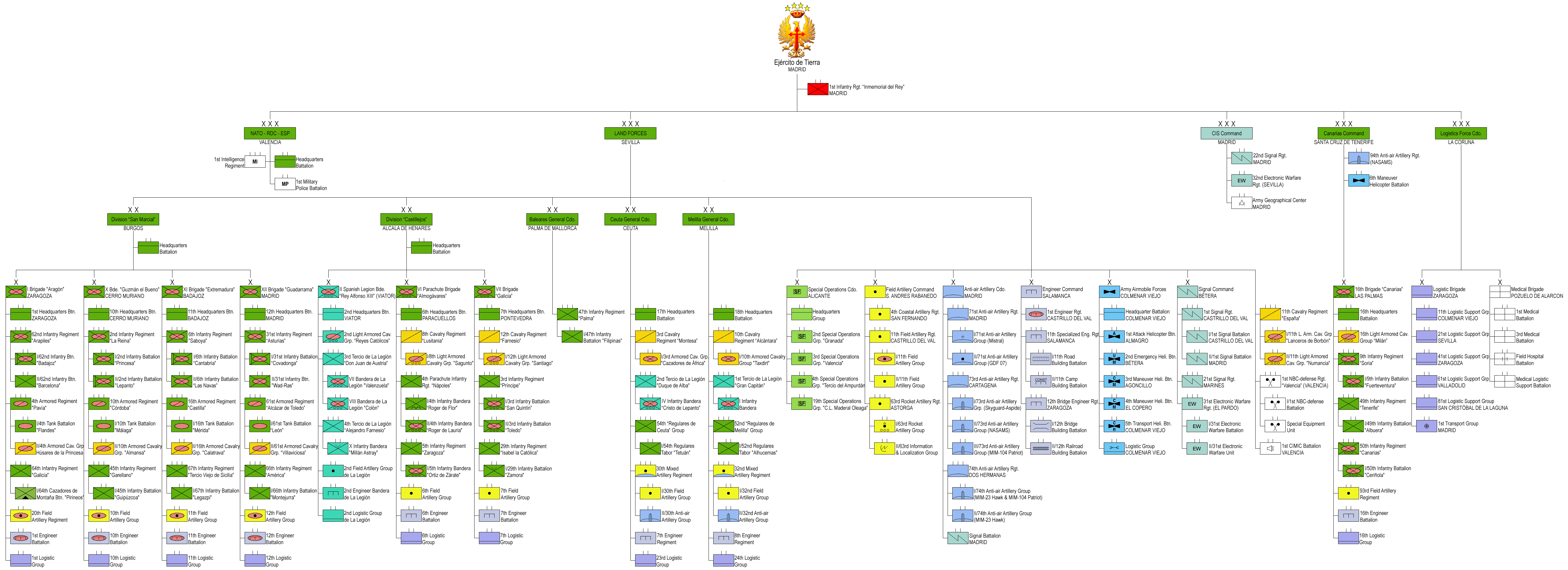 The structure of the Land Forces of the Spanish Armed Forces from 2016